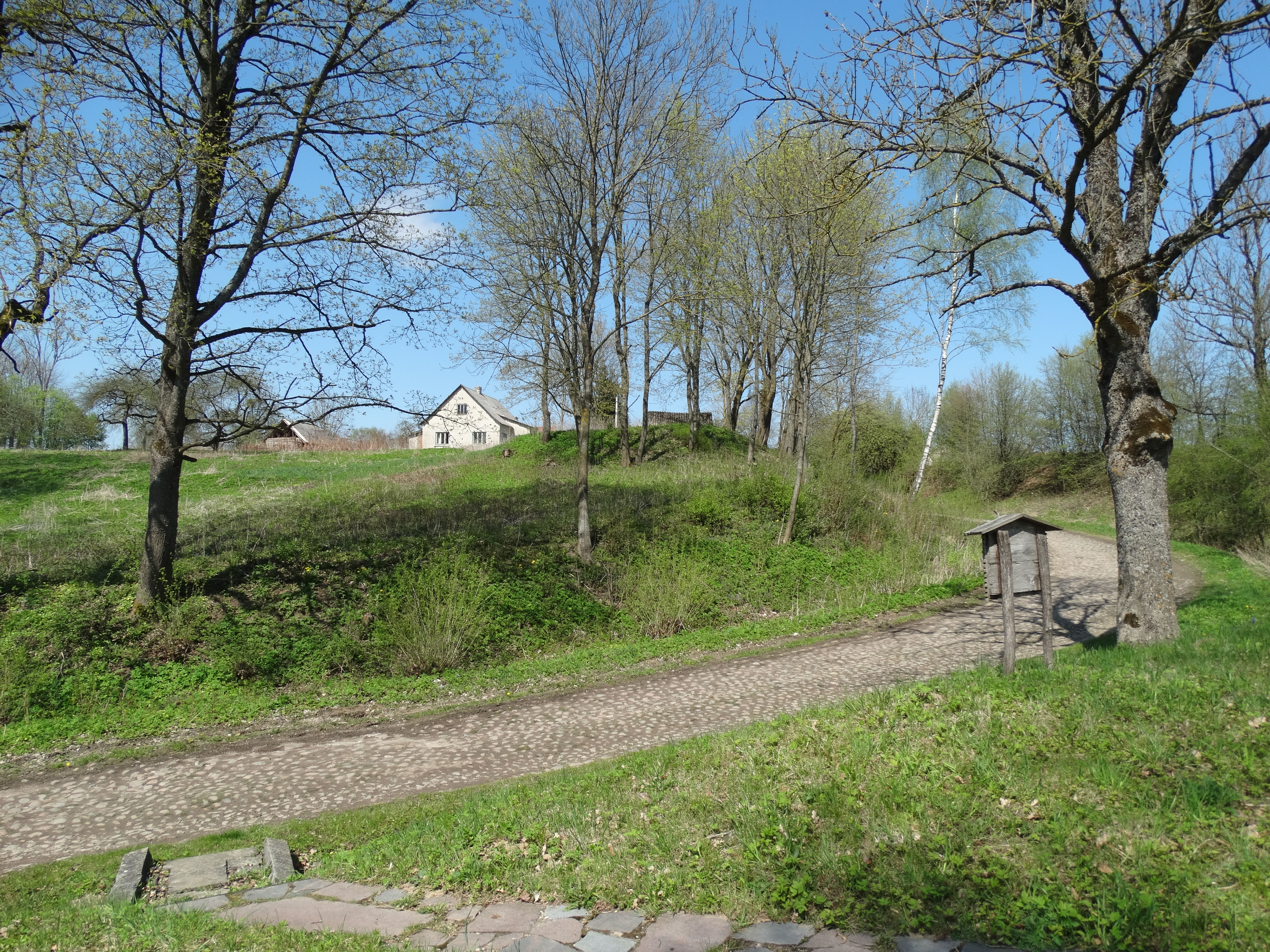 Liukonys, Širvintos District, Lithuania